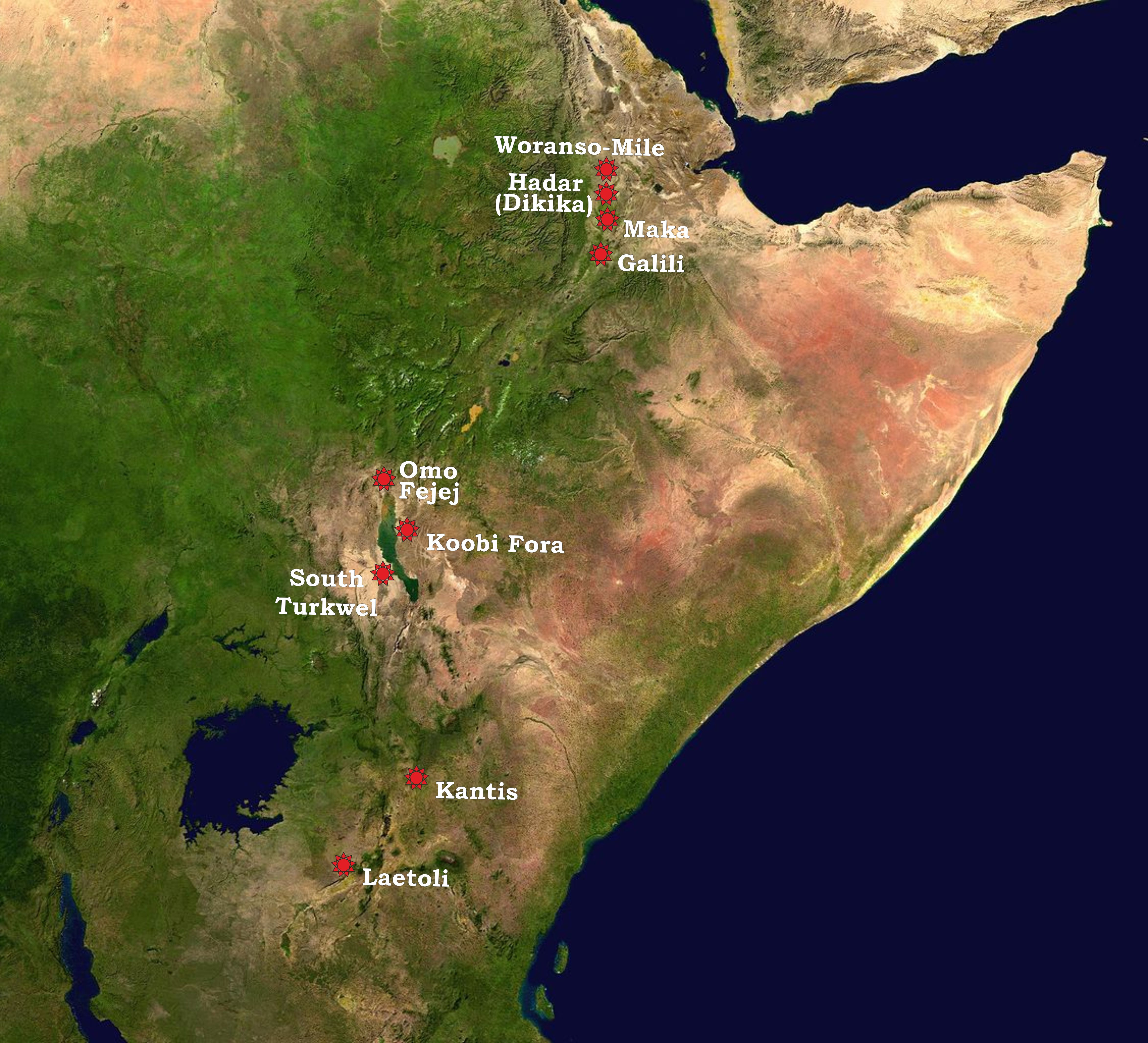 Australopithecus afarensis paleoanthropological sites in East Africa - Tanzania, Kenya and Ethiopia